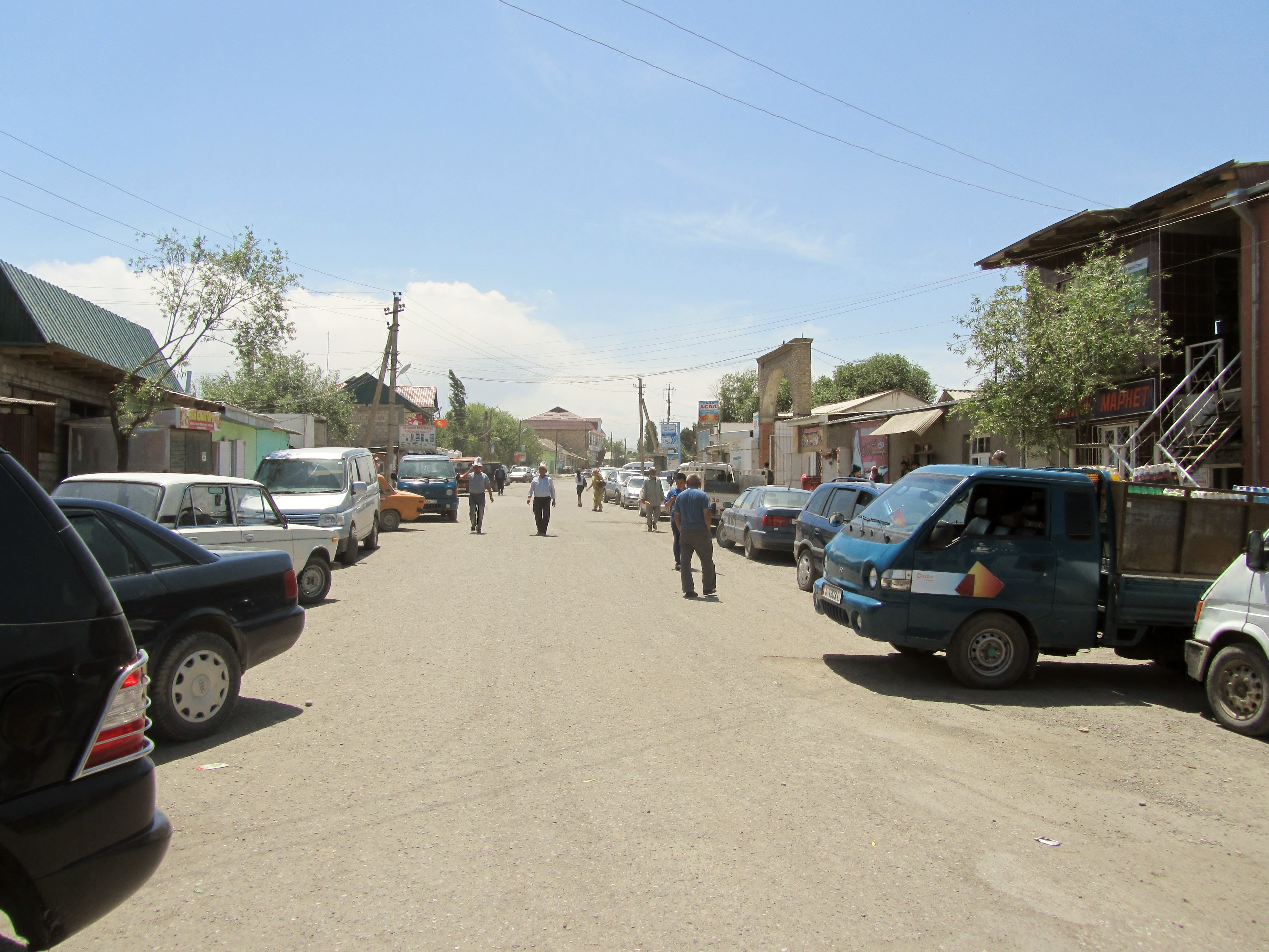 The main road that passes through the village of Internatsional. Leilek District, Kyrgyzstan.